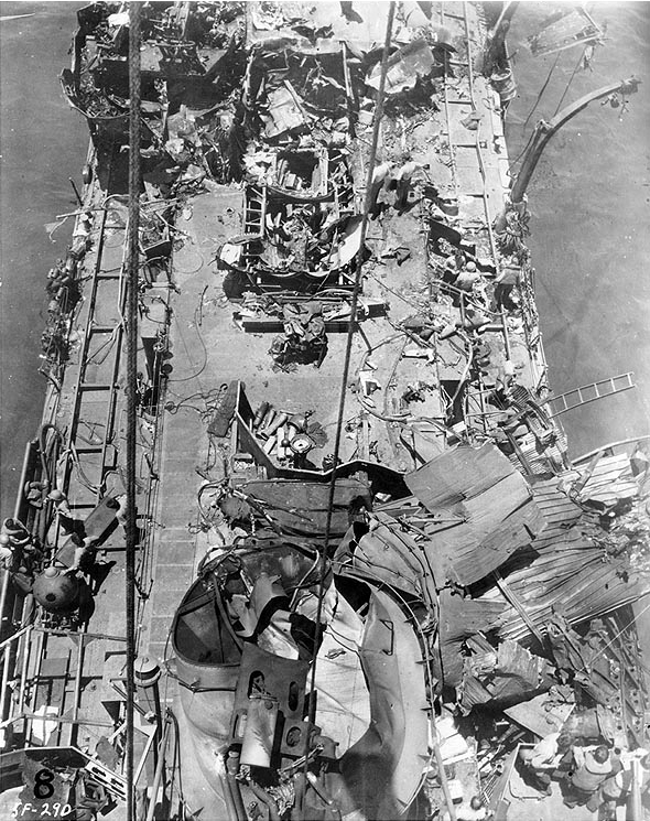 Damage amidships of the U.S. Navy destroyer minelayer USS Aaron Ward (DM-34) received during Kamikaze attacks off Okinawa, Japan, on 3 May 1945. View looks down and aft from Aaron Ward's foremast, with her greatly distorted forward smokestack in the lower center. Photographed while the ship was in the Kerama Retto on 5 May 1945. A mine is visible at left, on the ship's starboard mine rails.